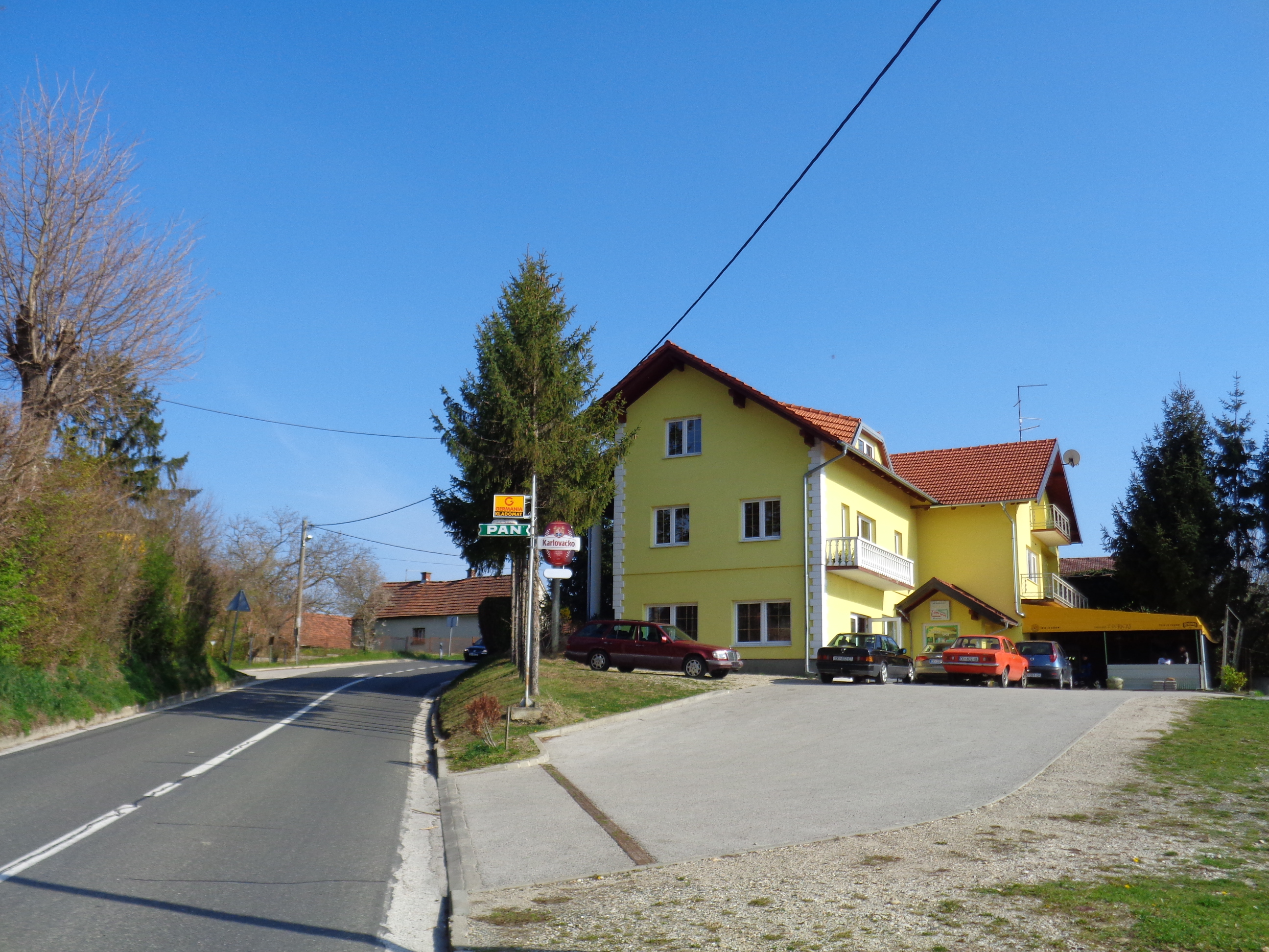 Prekopa, Medjimurje County, Croatia - village centre